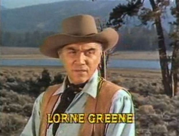 Cropped screenshot of Lorne Greene from the television series Bonanza. Episode: "Bitter Water" (1960).